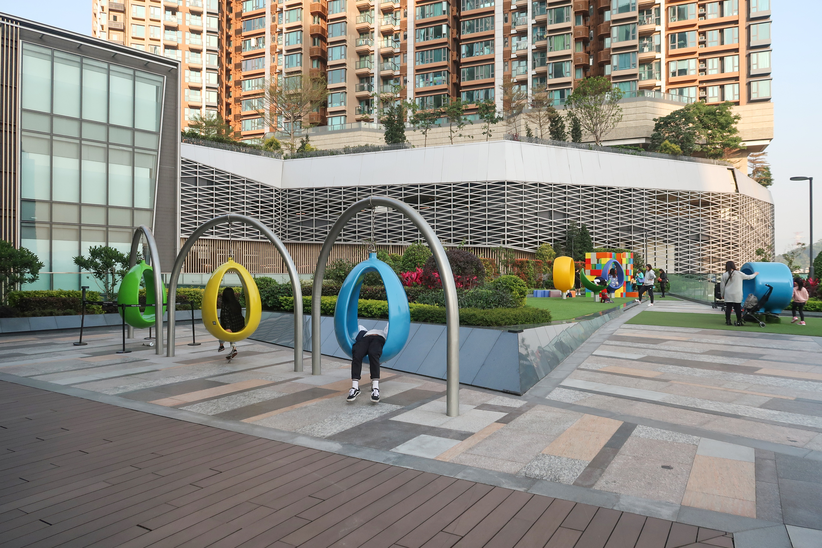 Yoho Mall I Extension Level 2 Play Area